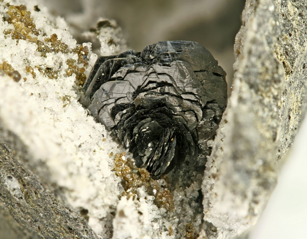 Ilmenite Locality: Buckwheat Pit (Southwest Opening; Buckwheat Mine), Franklin, Franklin Mining District, Sussex County, New Jersey, USA The ilmenite rosette is ~ 7 mm (Via Nick Zipco). This is from one of the camptonite dikes that cut through the ore body. The enclosing calcite has been etched away.